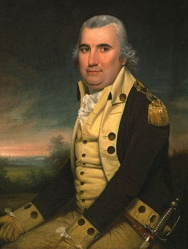 Major General Charles Cotesworth Pinckney (1746-1825)